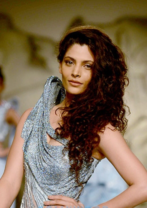 Saiyami Kher in 2016